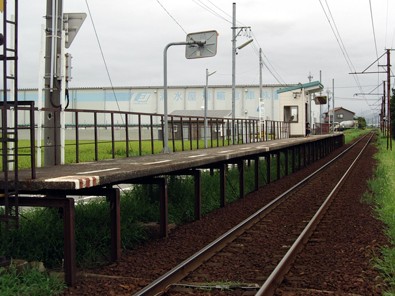 Shin-Miyakawa Station on the Toyama Chiho Railway Main Line in Kamiichi, Toyama Prefecture, Japan